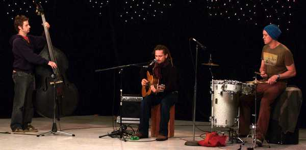 Photo of the John Butler Trio playing at the KUSI-TV studio. Attribution to: Phil Konstantin